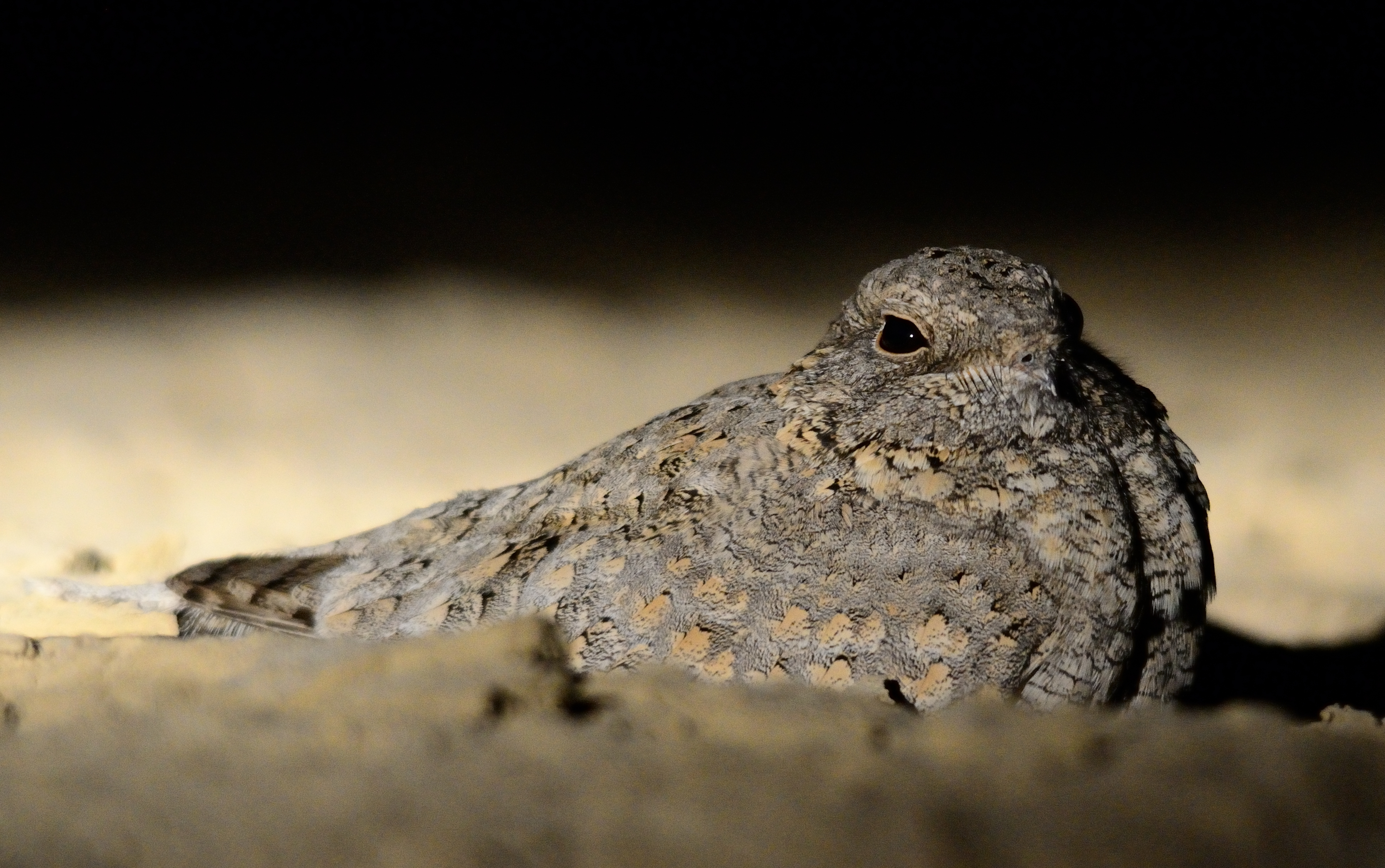 Syke's Nightjar (Caprimulgus mahrattensis) from Banni Grasslands, Kutch